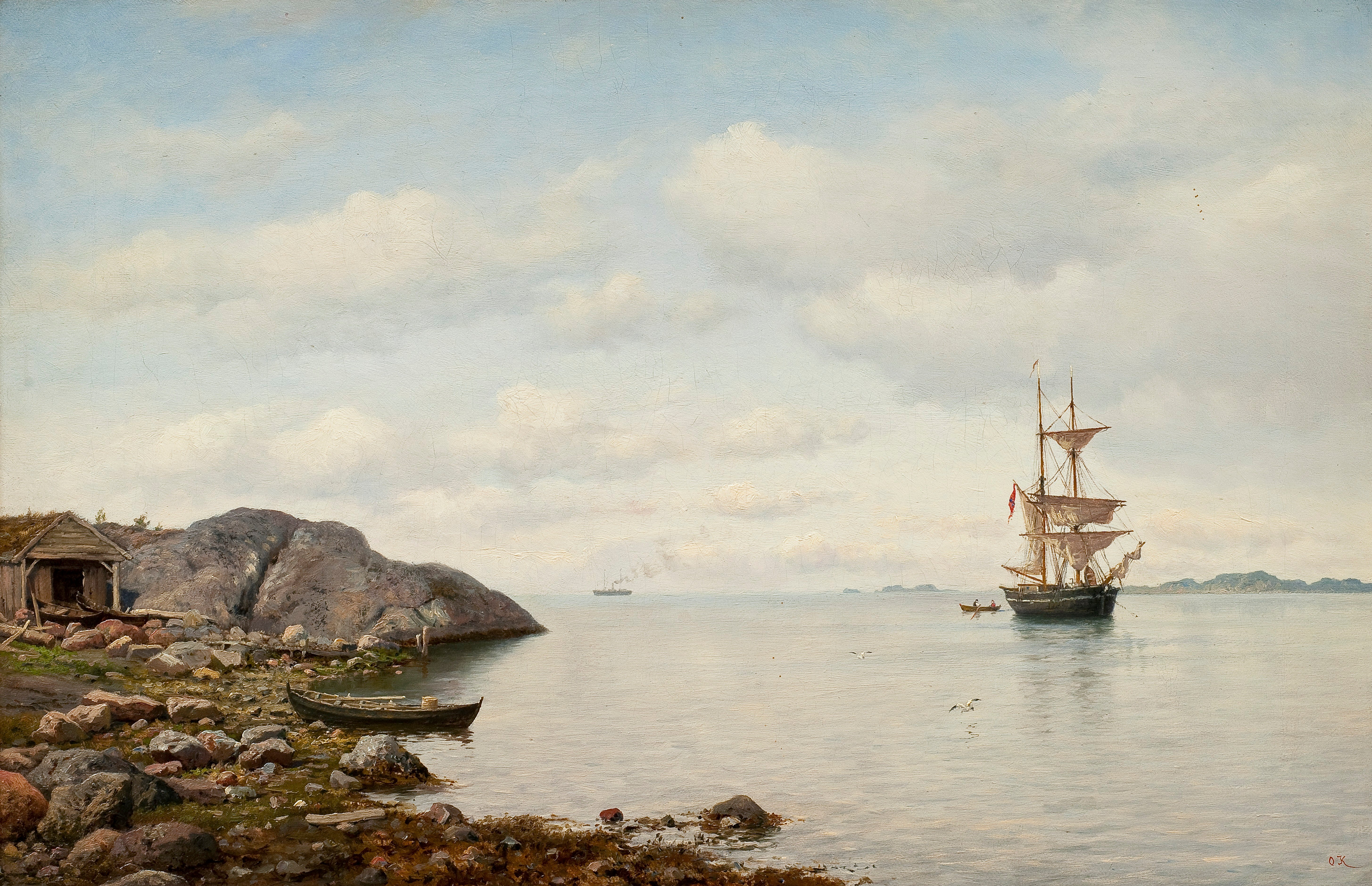 OSCAR KLEINEH, SAILING SHIP NEAR THE SHORE. Sign.